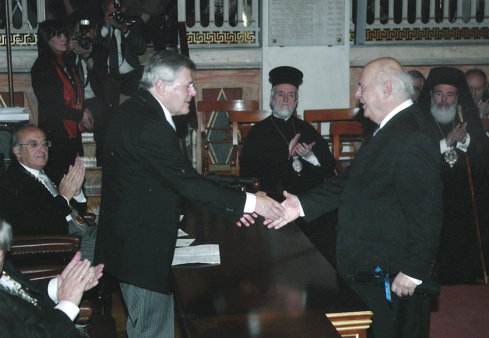 Festive meeting of the Academy of Athens 2006 - Thanassis Stephopoulos was awarded with the Prize of the Order of Letters and Fine Arts, for his total contribution to the Greek art.